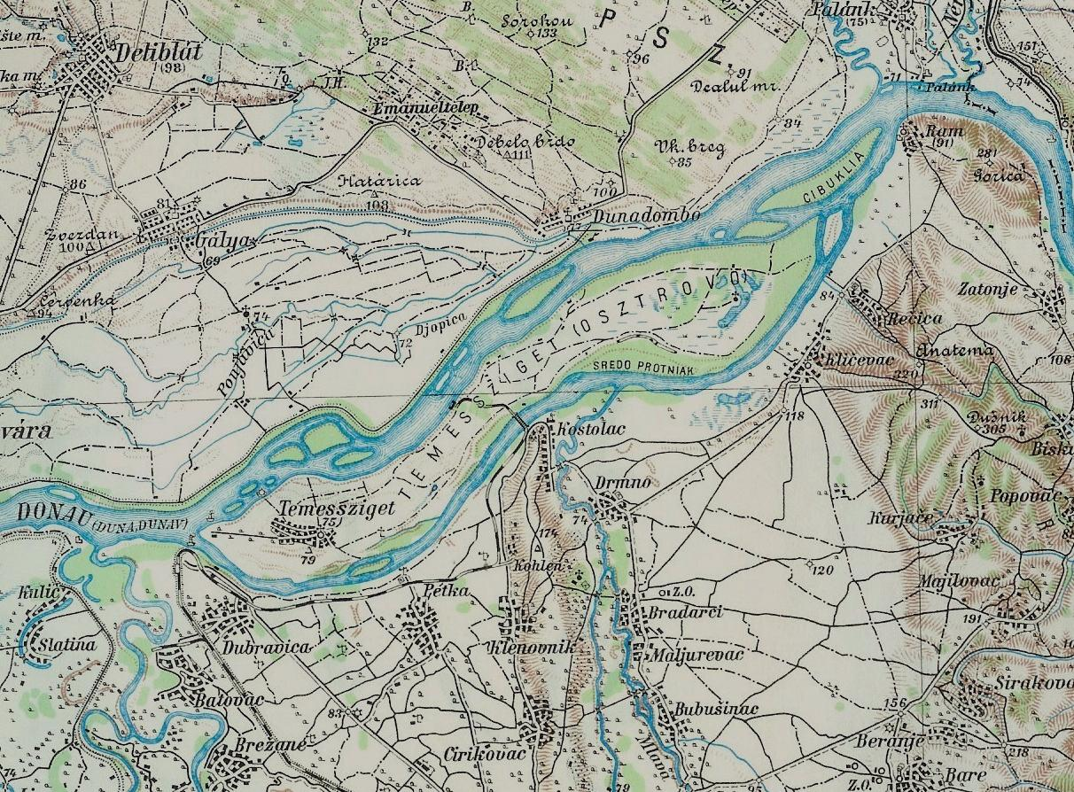 The Island.